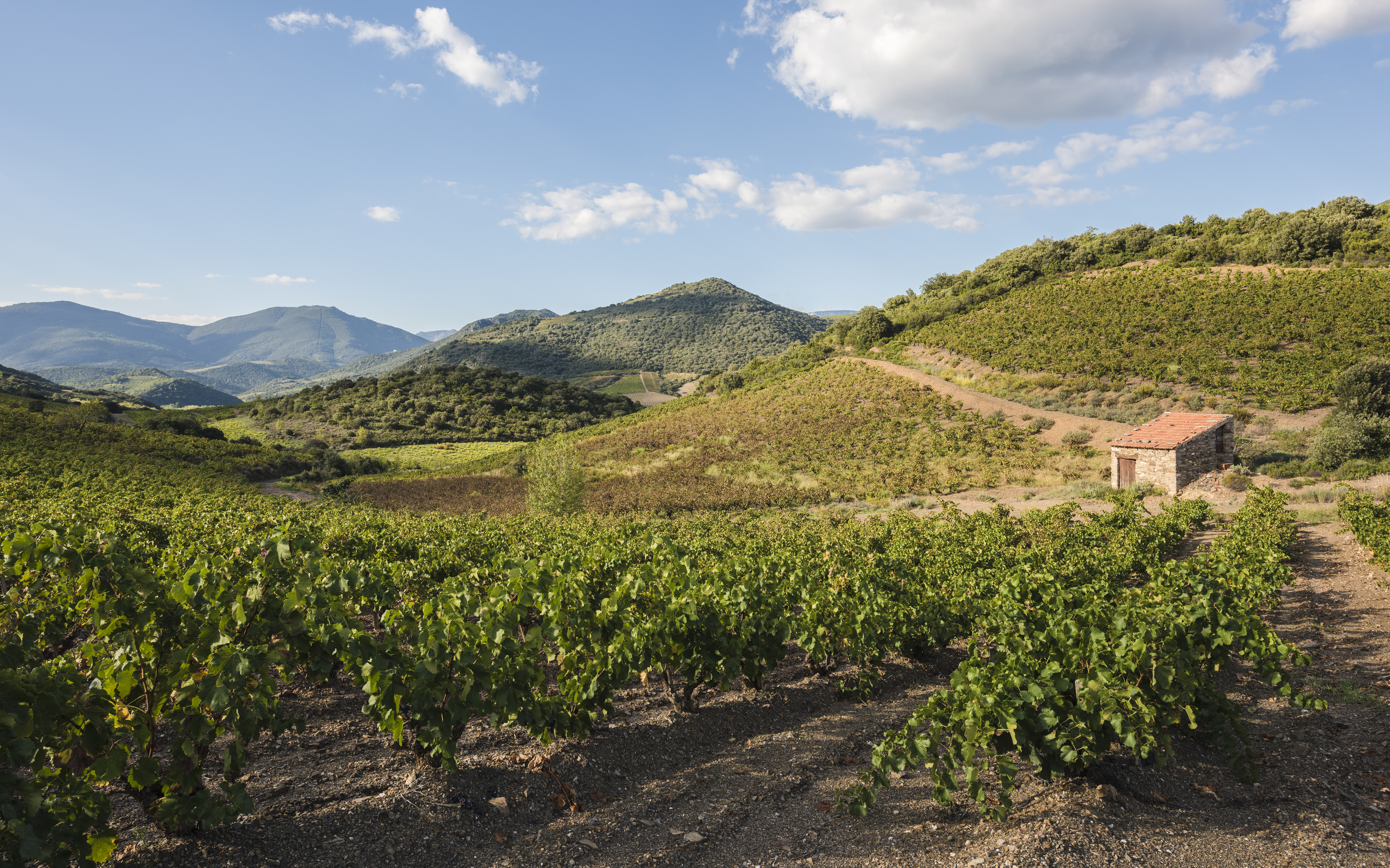 Hills and vineyards in the Orb River Valley.Roquebrun, Hérault, France. Haut-Languedoc Regional Natural Park.